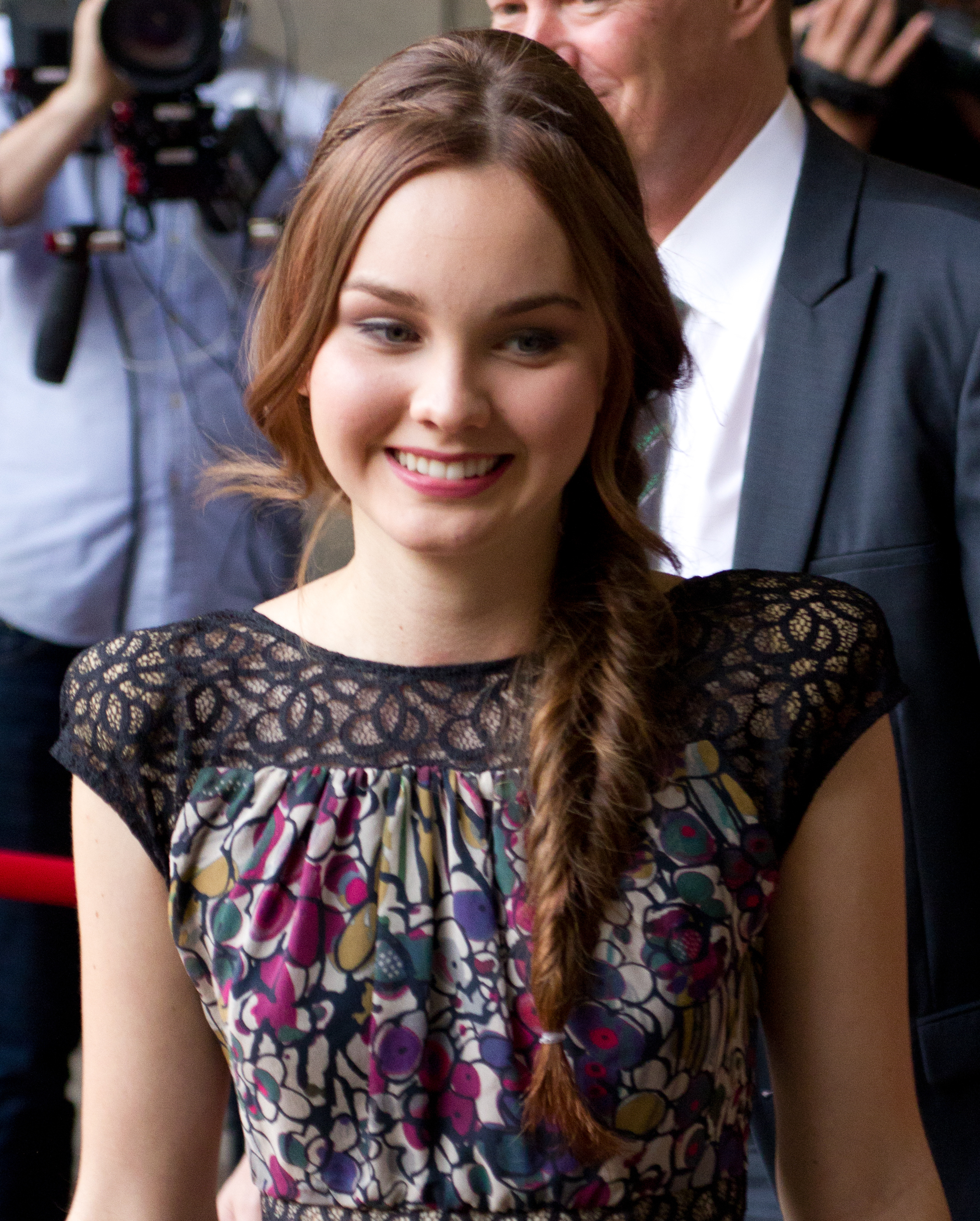 Liana Liberato at the Toronto International Film Festival 2012.